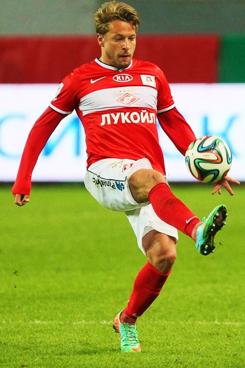 Patrick Ebert 1